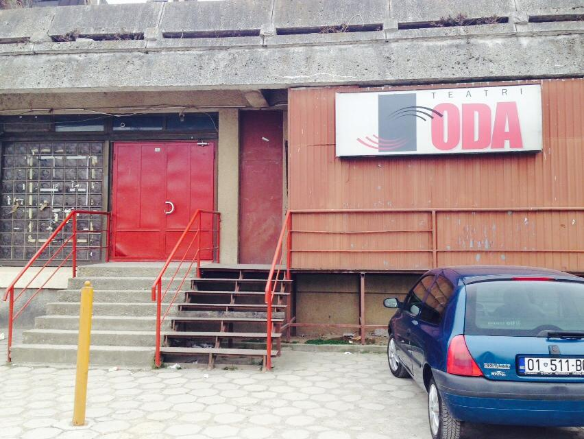 A view of ODA Theatre